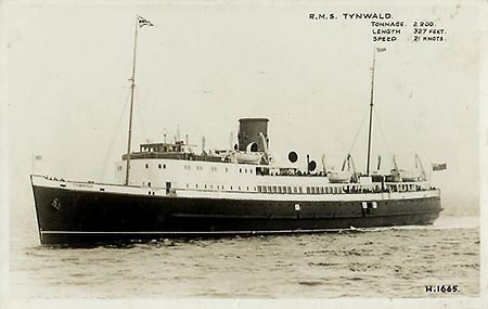 Tynwald approaches Douglas.